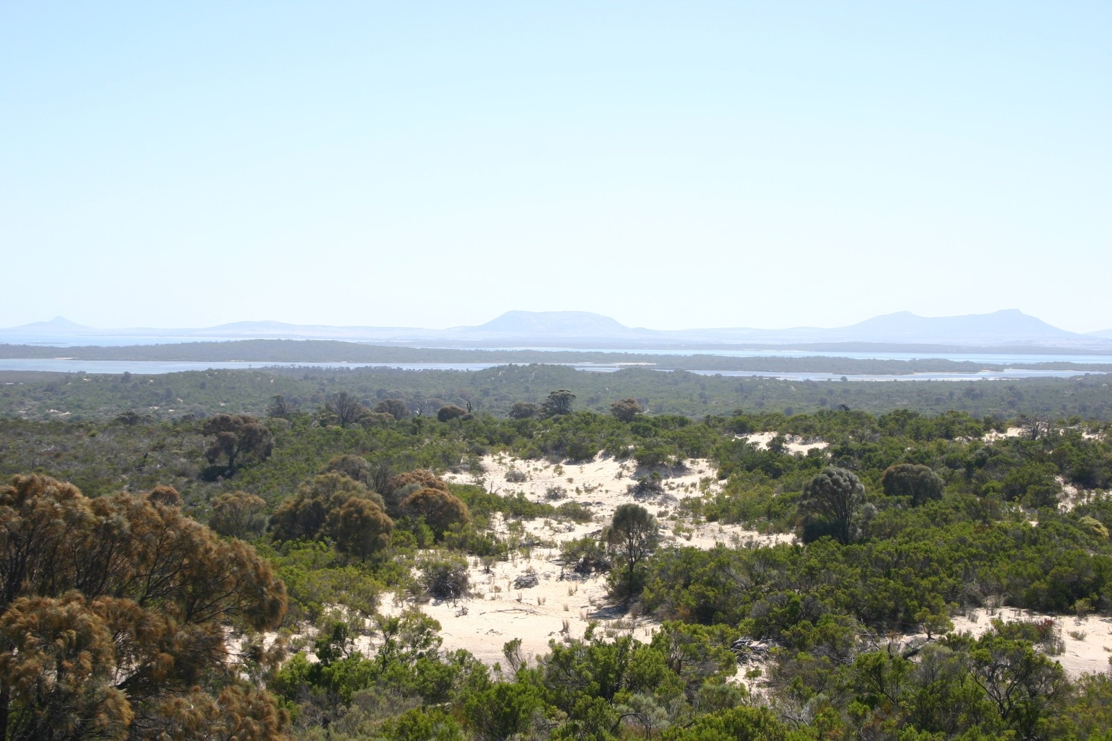 Coastal Heath in Coffin Bay National Park. I took this photograph in March 2006. Takver ( It is Released under GNU FDL.